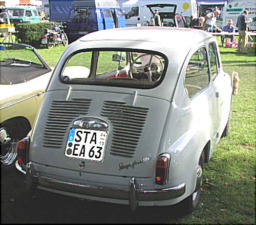 Steyr-Fiat 600